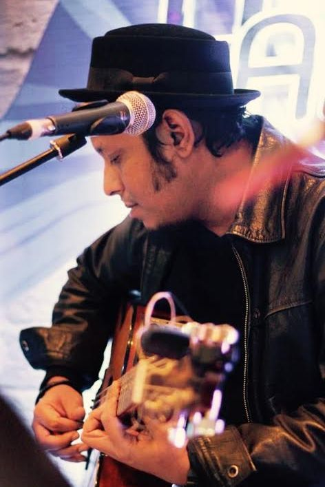 This is a image of drockstar shuvo, one of the leading vocal, singer in bangladesh